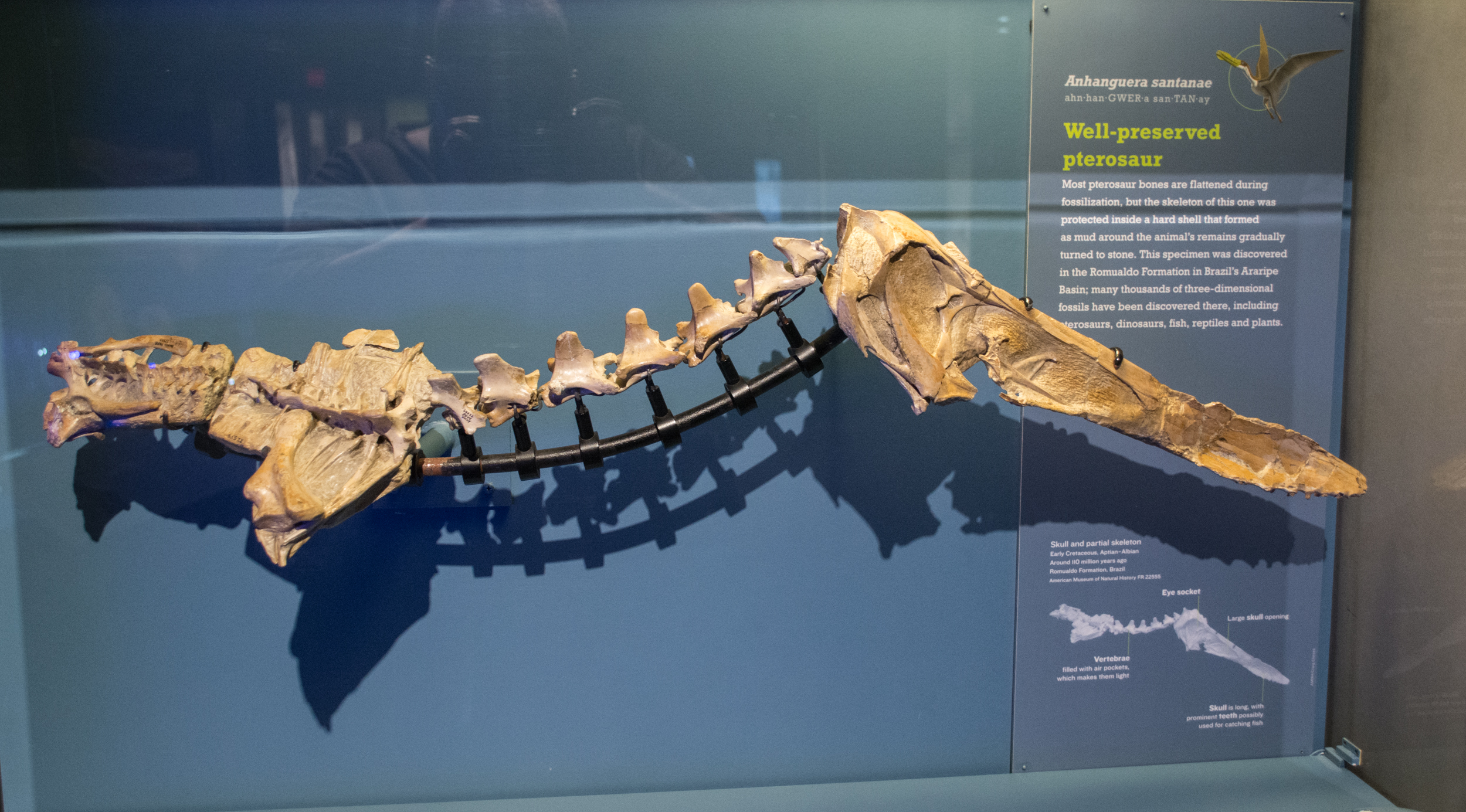 Anhanguera santanae - Pterosaurs Flight in the Age of Dinosaurs